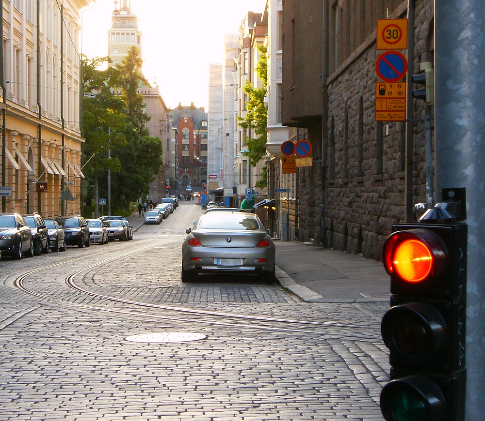 Yrjönkatu, Helsinki, Finland, Hotelli Torni on the background